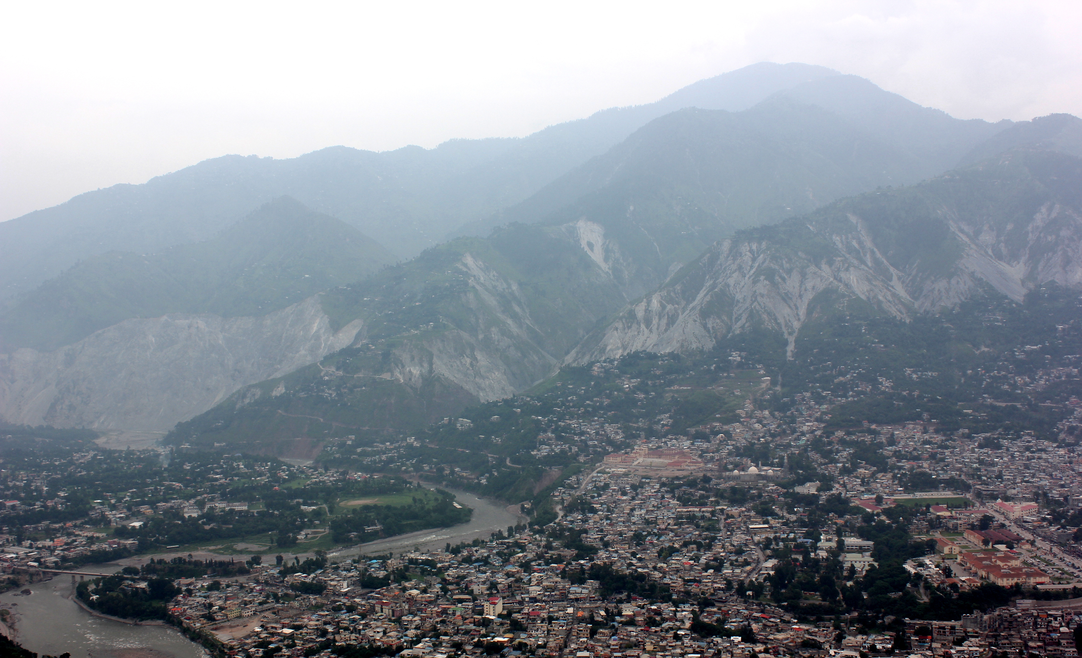 Top view of Muzaffarabad city captured from a nearby hill.